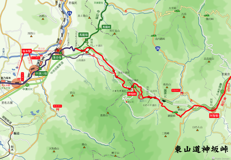 Misaka Mountain Pass of Tozando.